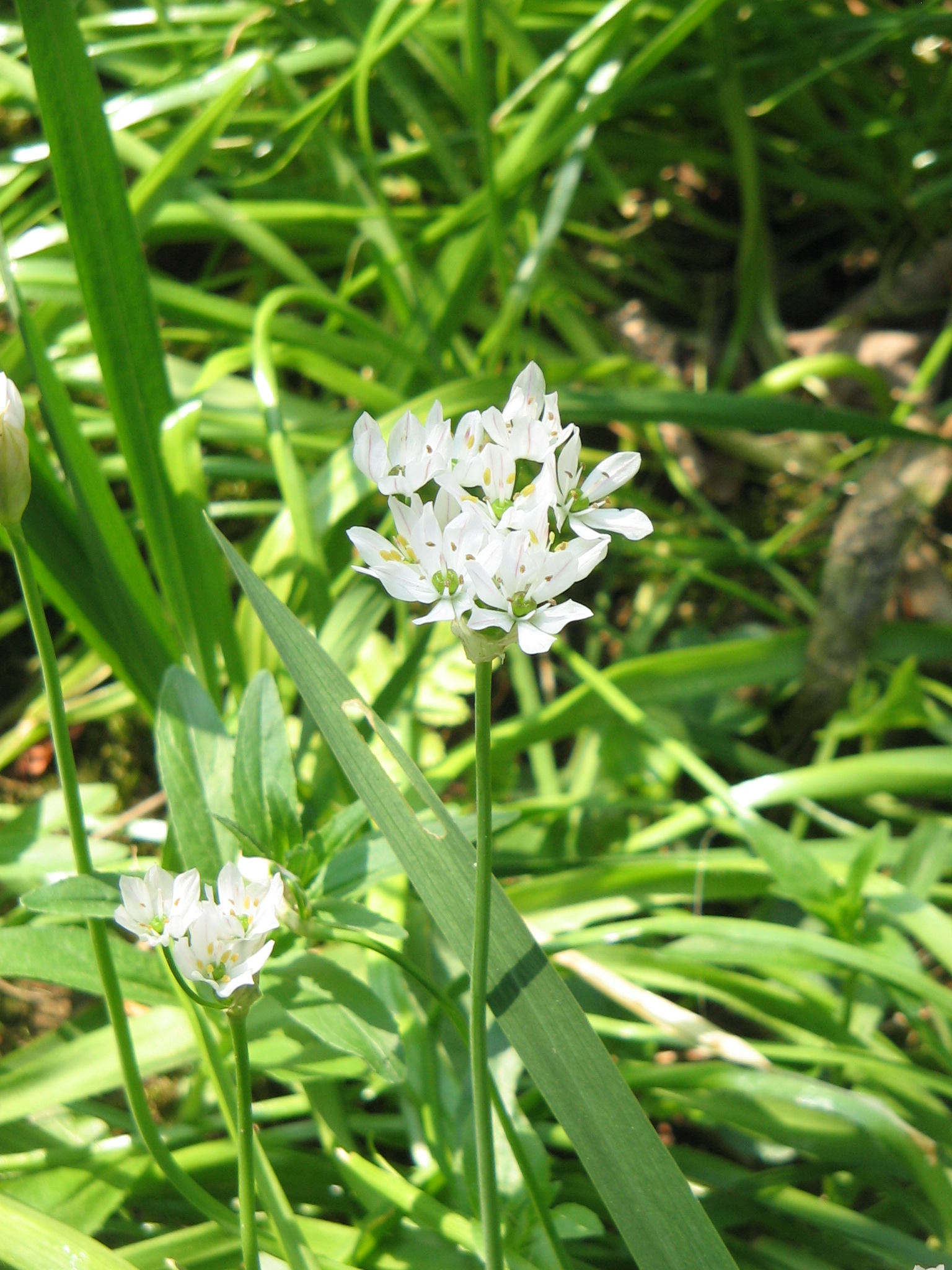 Allium neapolitanum